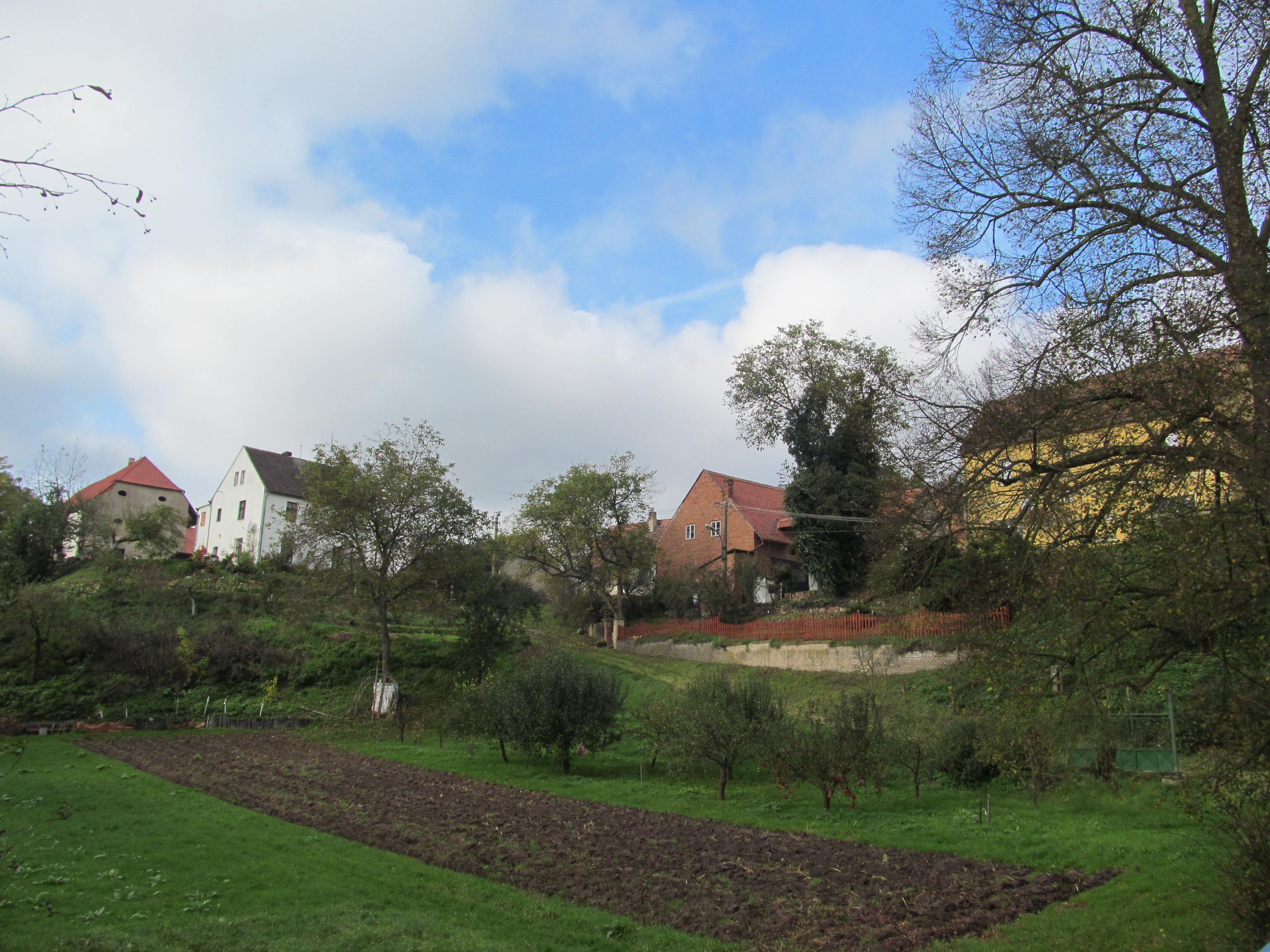 Lhota - total view